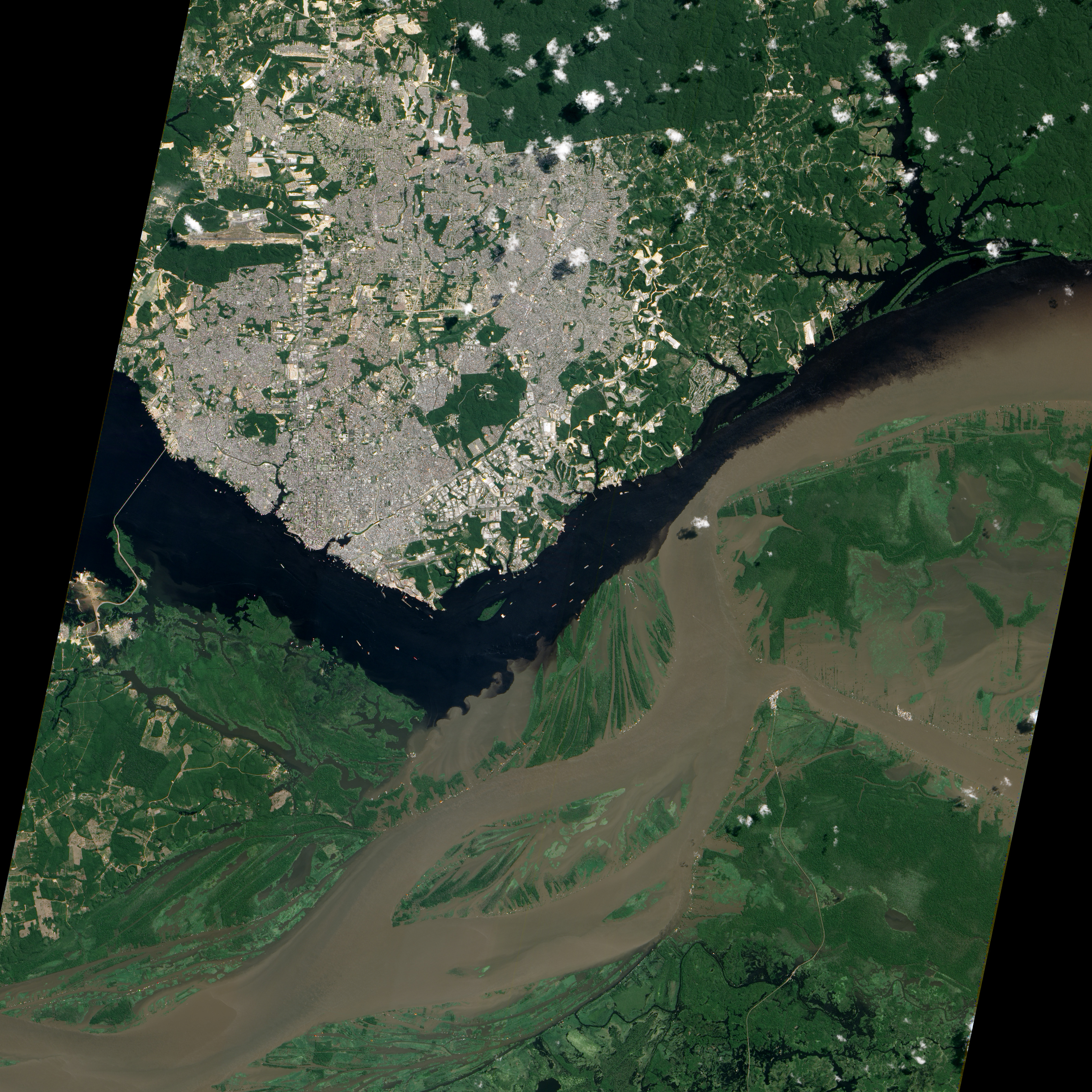 The meeting of waters (Amazon & Rio Negro)